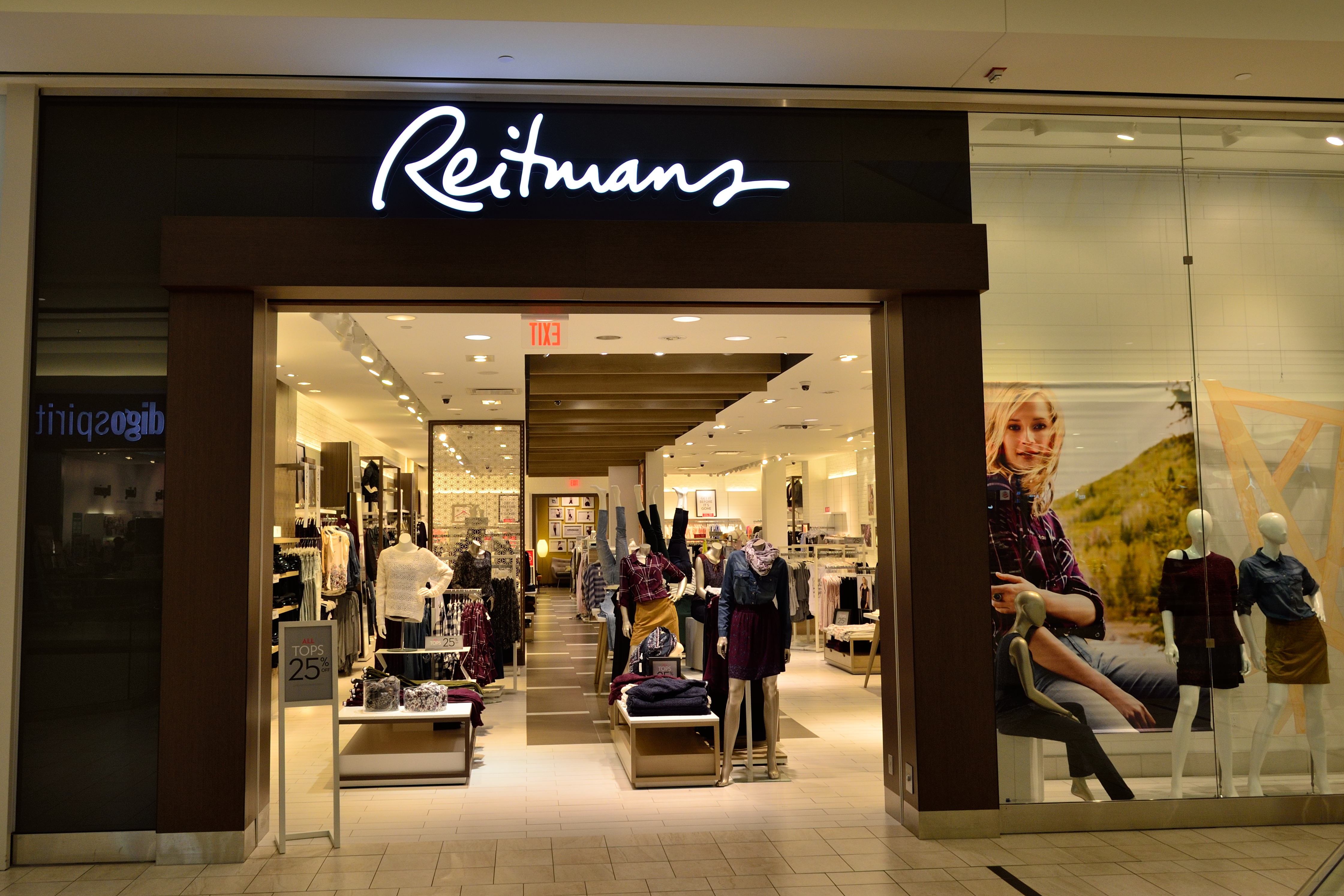 Reitmans at Markville Mall.